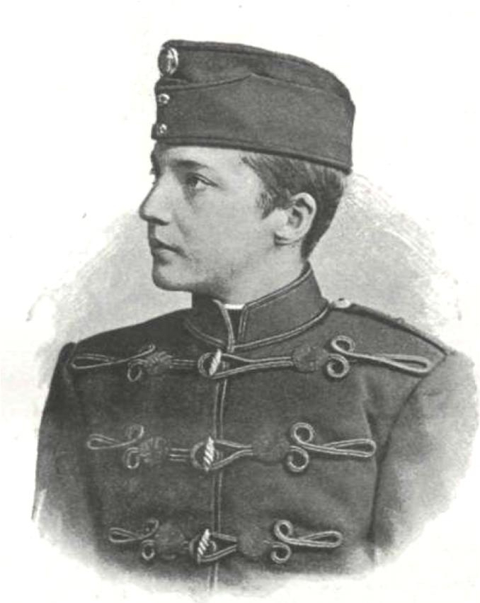 Archduke László of Austria